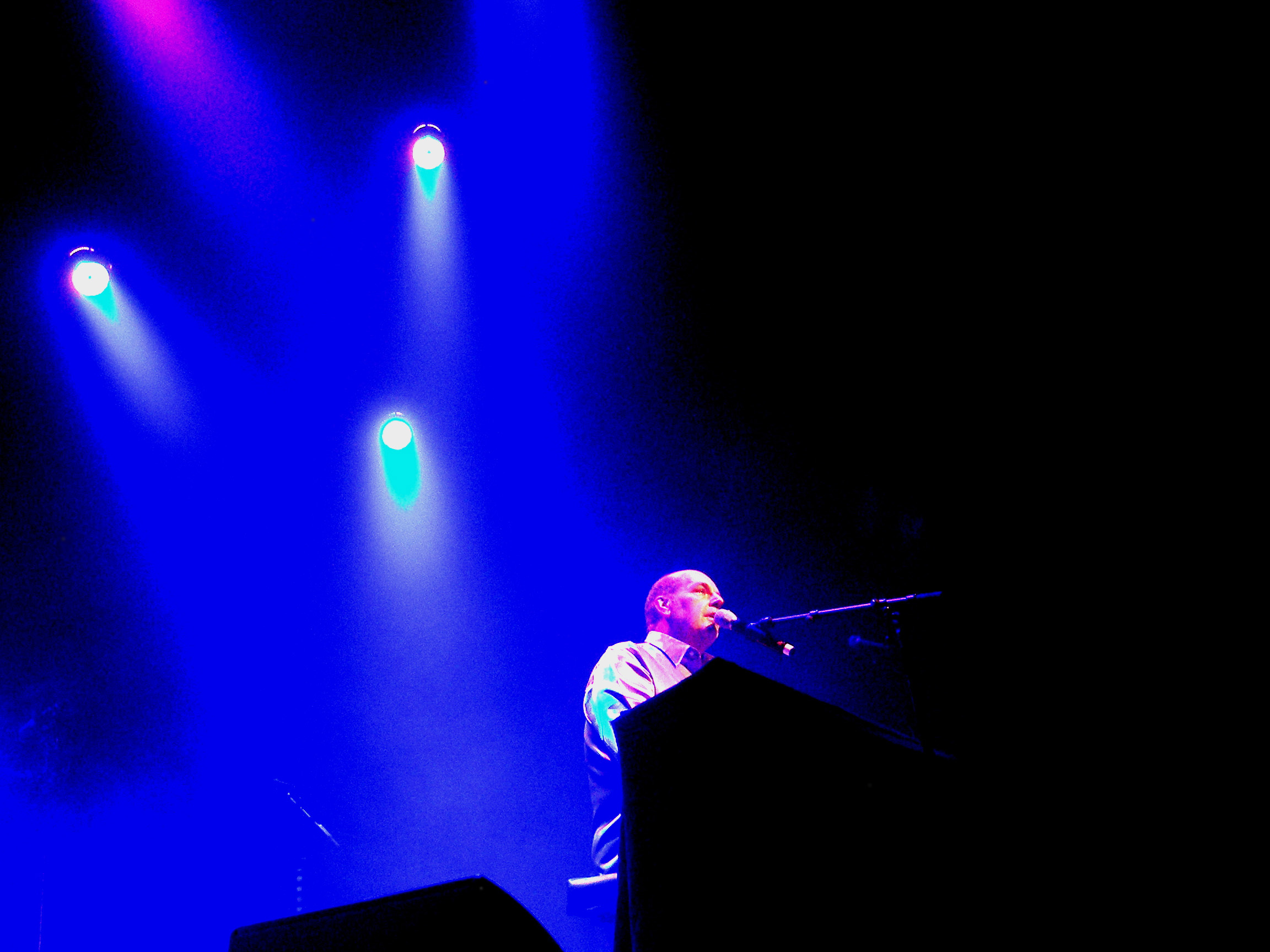 Dutch singer and musician Hans Vermeulen